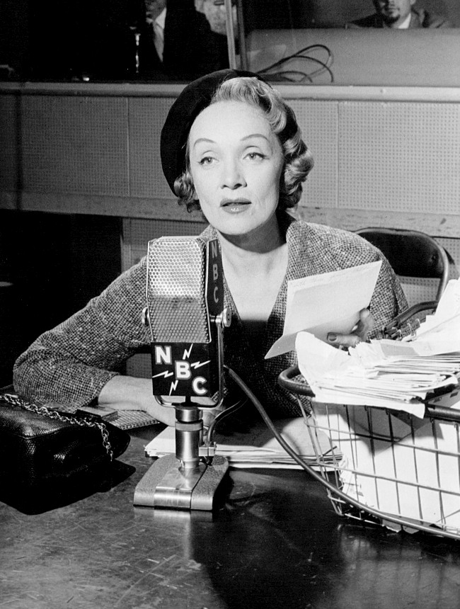 Photo of Marlene Dietrich from the NBC Radio network program Monitor. Dietrich was one of the regular contributors to the weekend radio program. She is not seen here in Monitor's "Radio Central", but in one of the NBC production studios recording her segments.